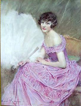 Oil painting by French Artist Henri Royer (1869-1938)